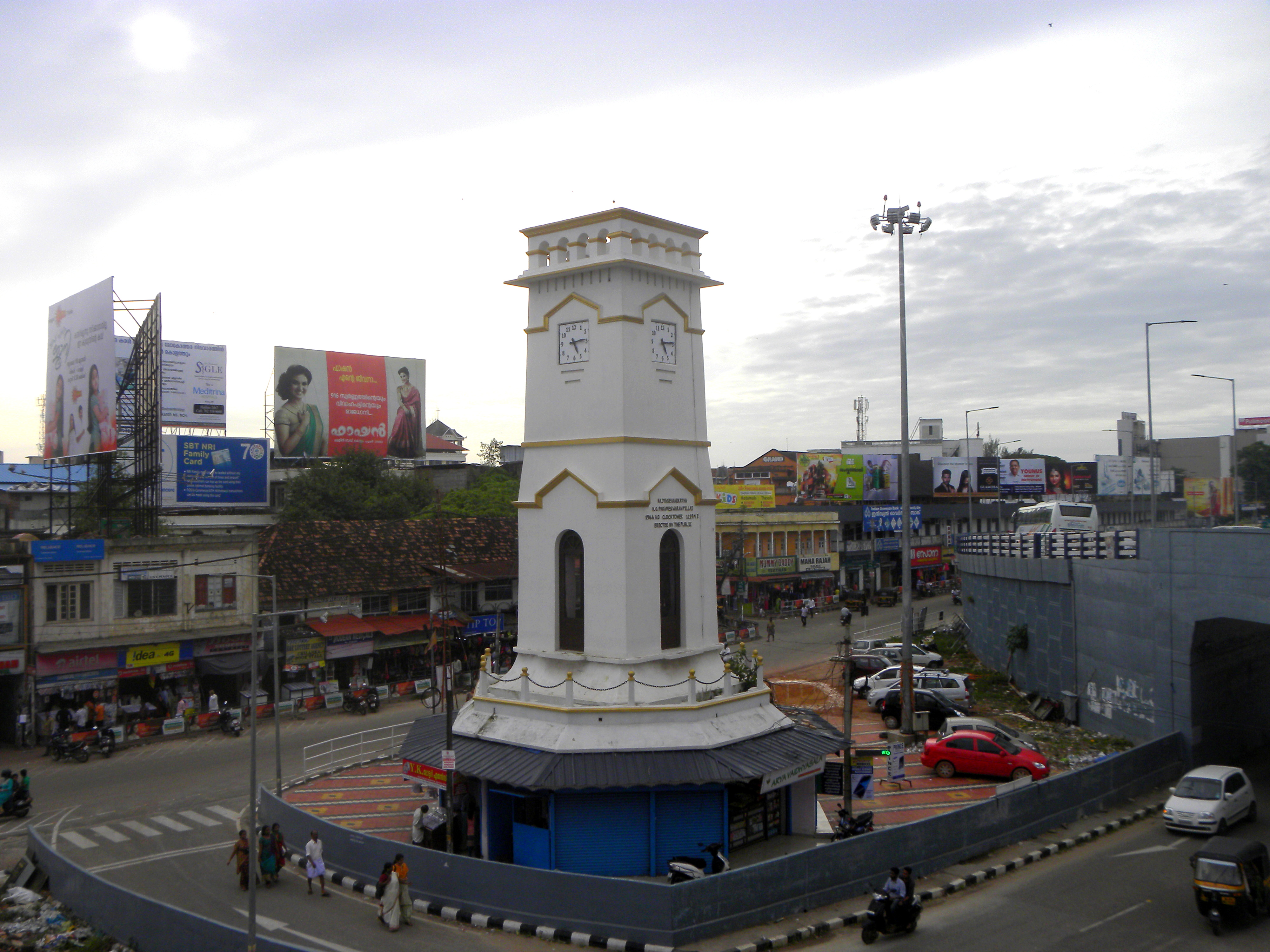 Chinnakada Clock Tower is the first clock tower in the erstwhile Travancore state. It has now become a non-official emblem of the city of Quilon